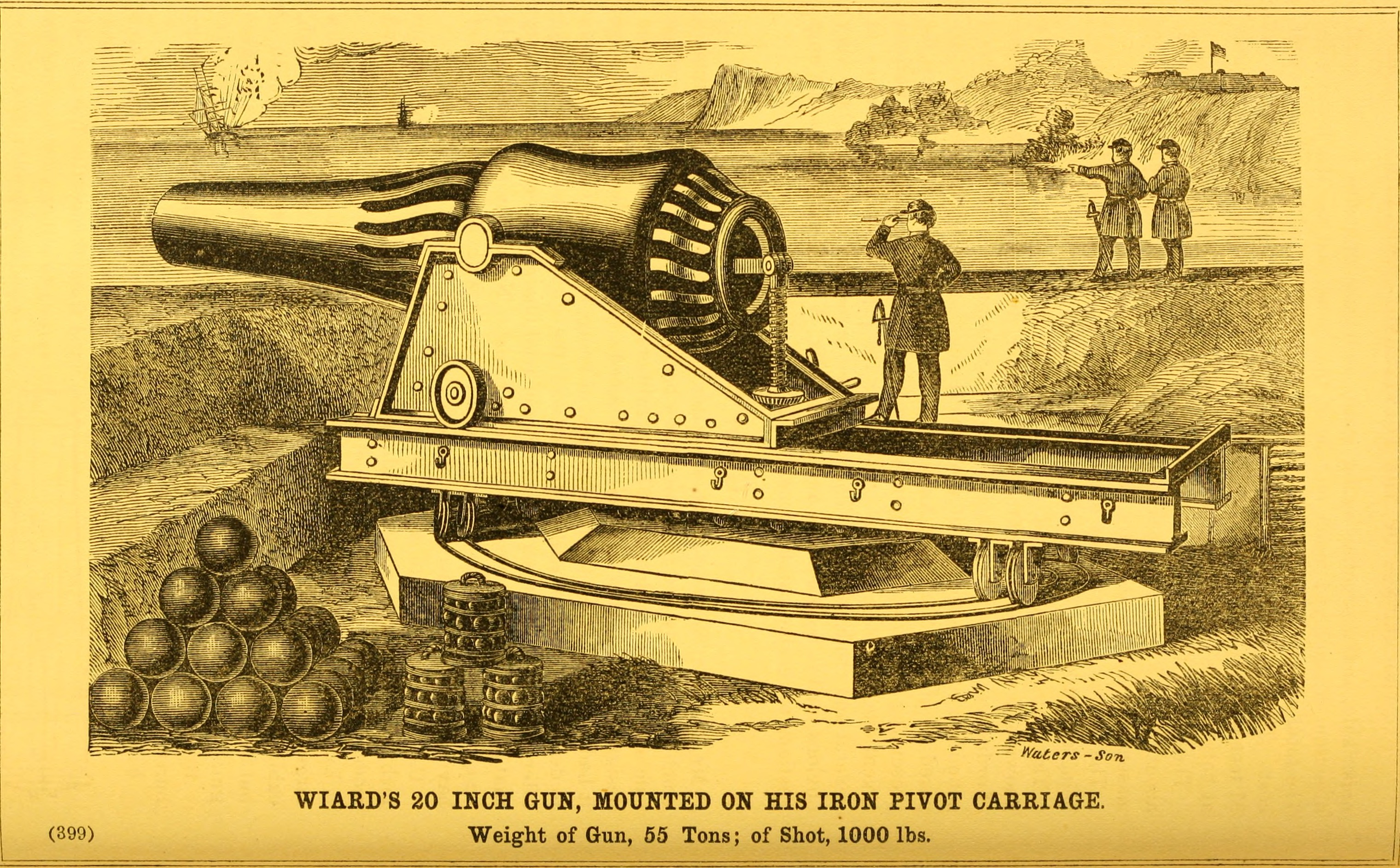 Artist's concept of a 20-inch (510 mm) gun proposed by Norman Wiard. A similar 15-inch (381 mm) weapon was cast and tested, but burst at the first shot.[1] Title: Annual report of the American Institute, of the City of New York Year: 1862 (1860s) Authors: American Institute of the City of New York Subjects: Science Publisher: [S. l. : s. n. ] Text Appearing Before Image: ' Text Appearing After Image: '